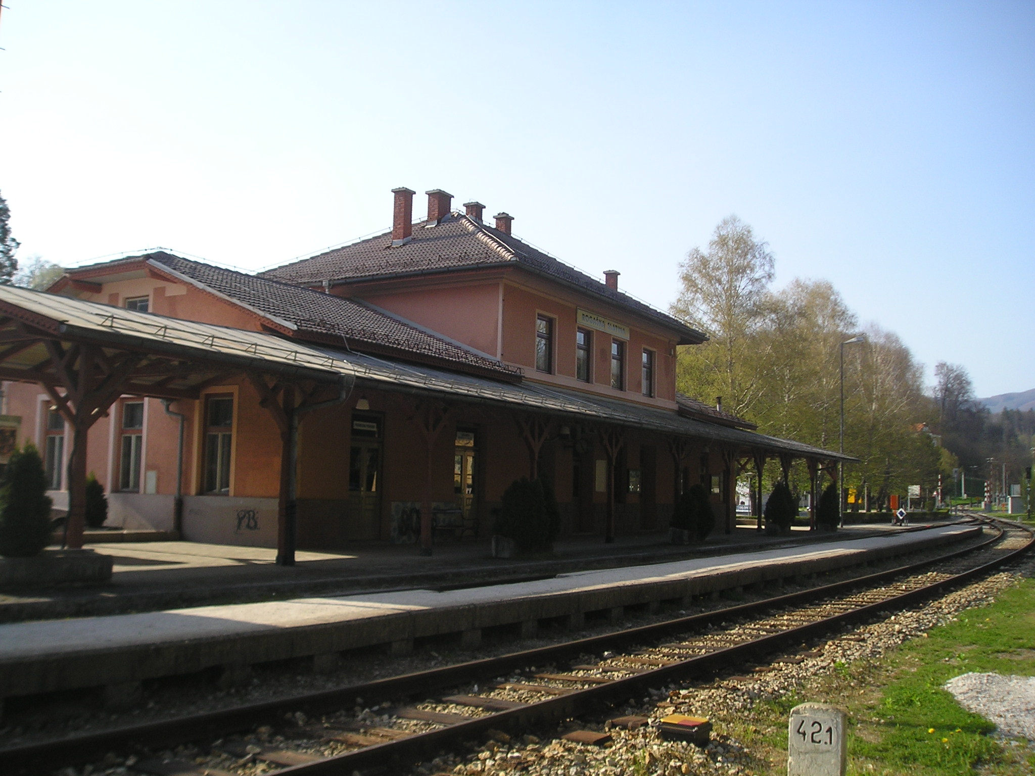 Train station in Rogaška slatina, Slovenia - view from tracks. Built in ca. 1846.